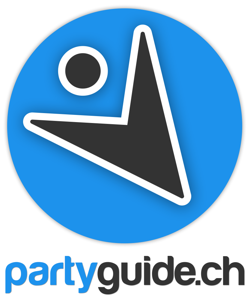 Redesigned logo for relaunch in 2014